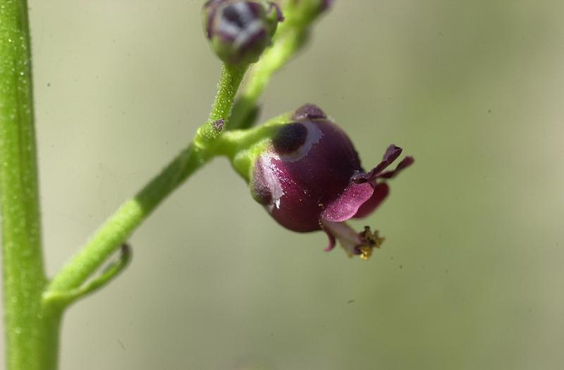 In latin, Scrophularia canina, a mediterranian plant.